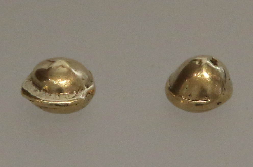 Photo of two Globules à la Croix (bullet coins) from the Netherurd hoard